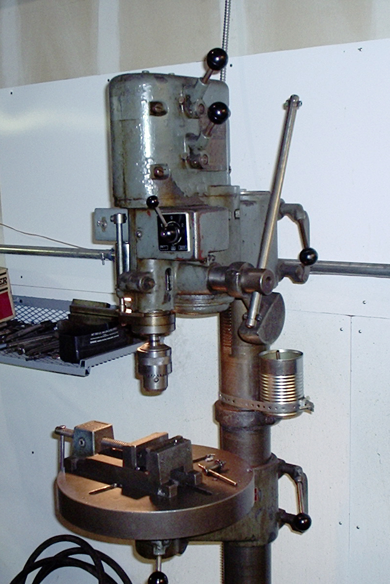 A geared head drill press designed for tool room and production use. This photograph was taken in my metal working shop on January 20, 2007